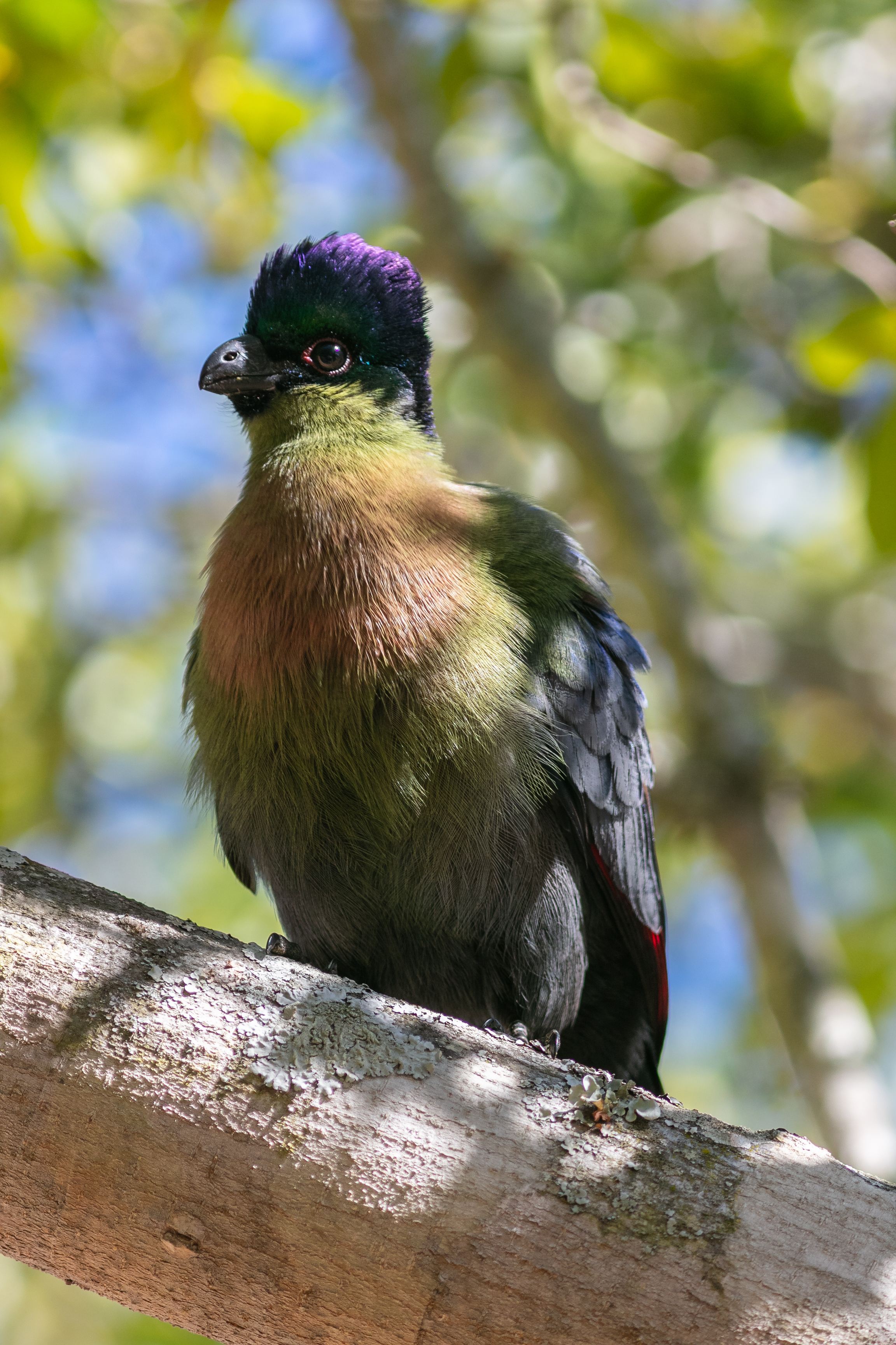 Purple-crested turaco (Tauraco porphyreolophus), Kruger National Park, South Africa